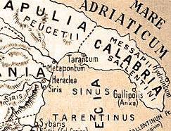 Detail of Image:Italia colonie.jpg